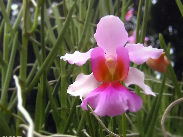 The Vanda Miss Joaquim, a natural orchid hybrid between Vanda teres and Vanda hookeriana, was first discovered in the garden of Agnes Joaquim in Singapore in 1893. On 15 April 1981 it was declared to be Singapore's national flower.